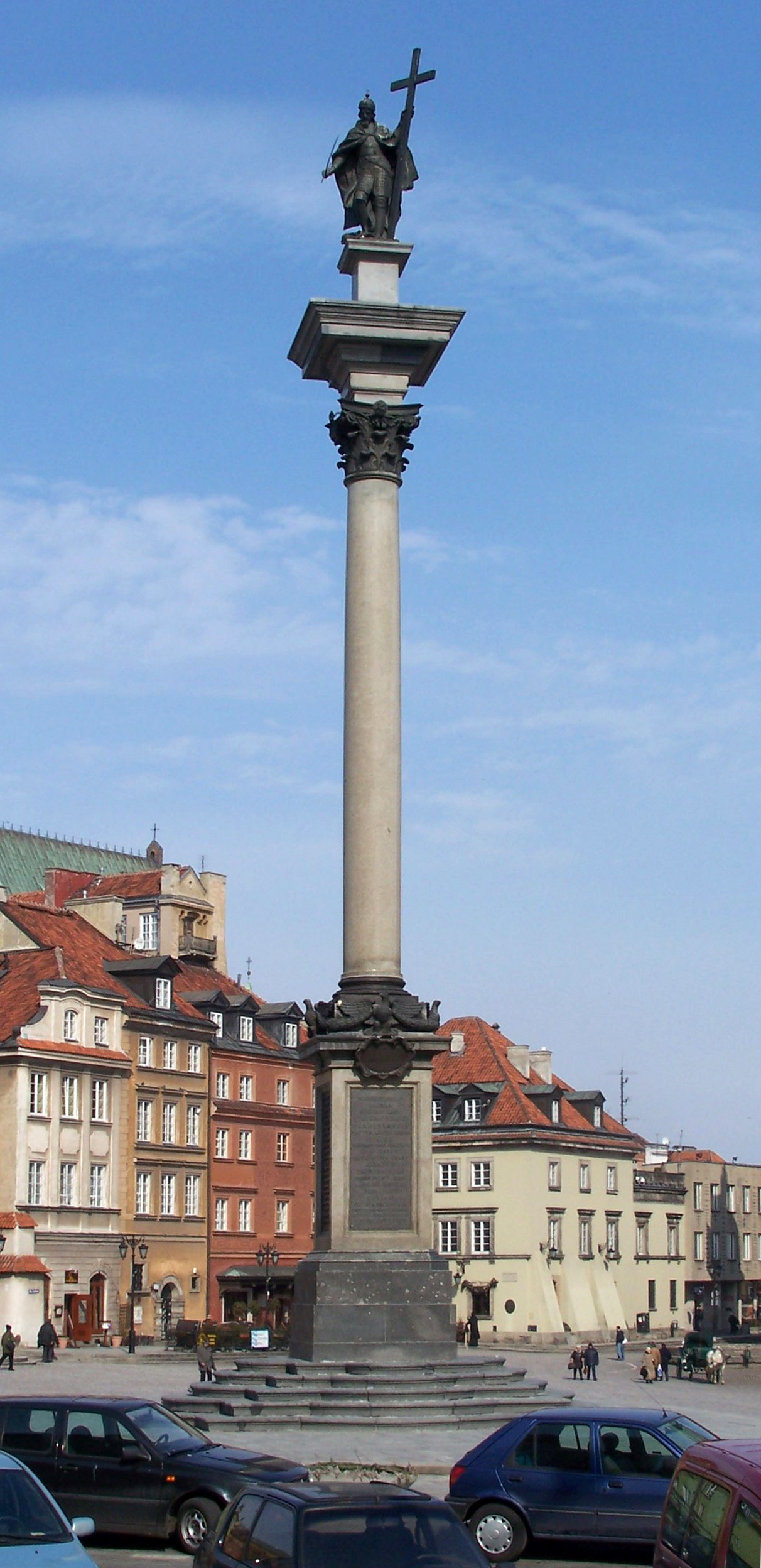 Zygmunt's Collumn in Warsaw.